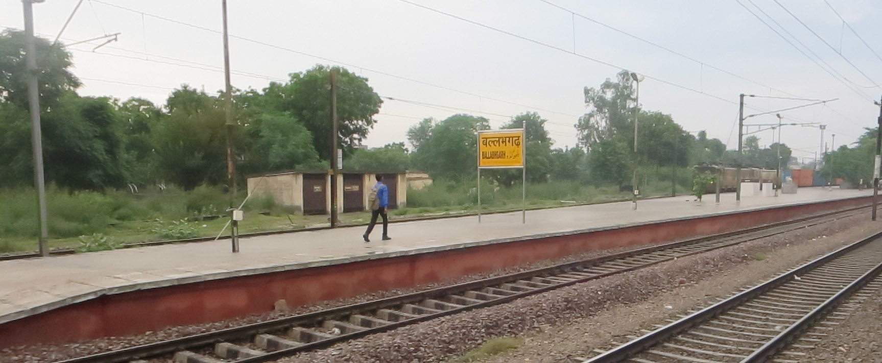 Ballabgarh railway station